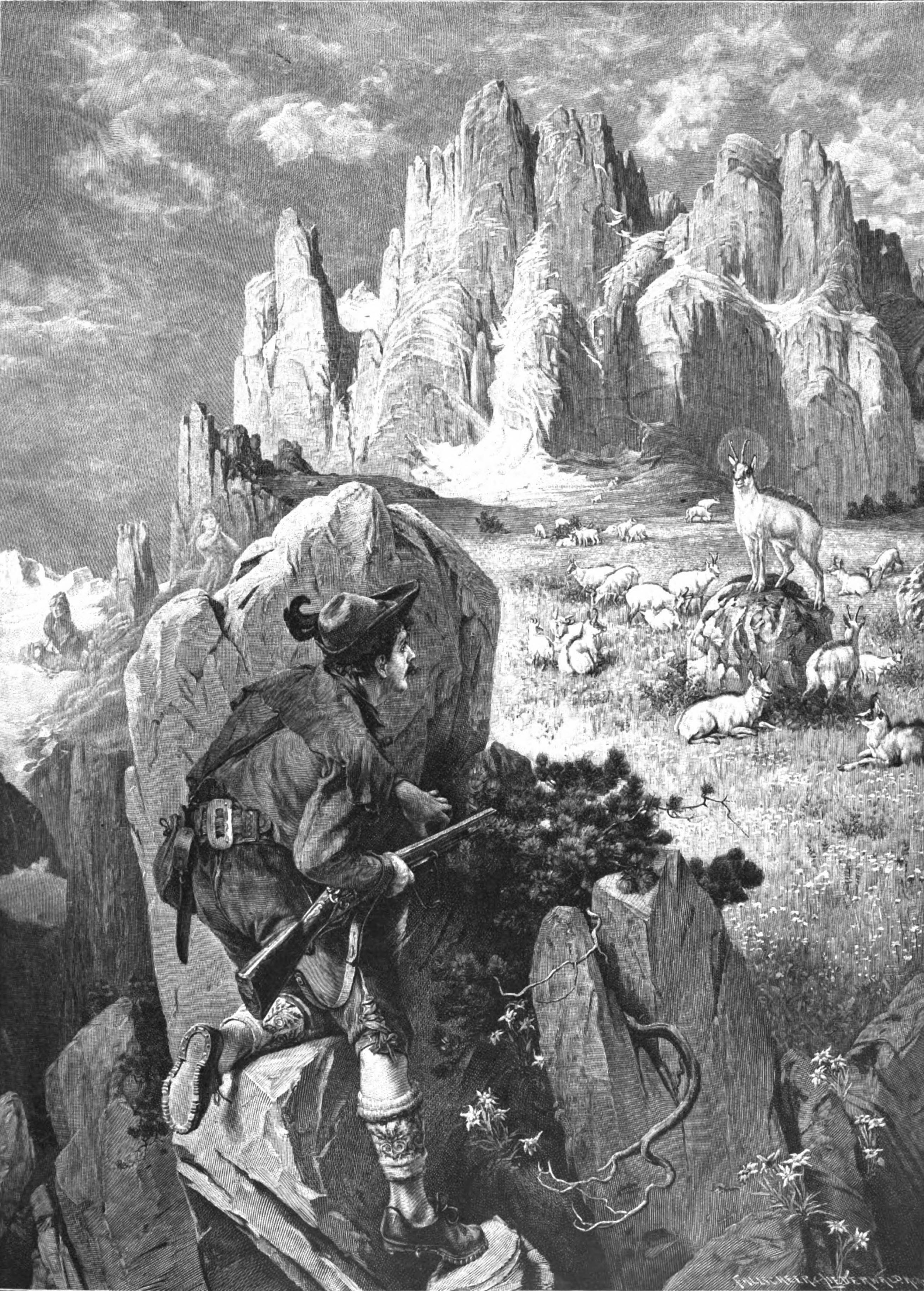 no caption